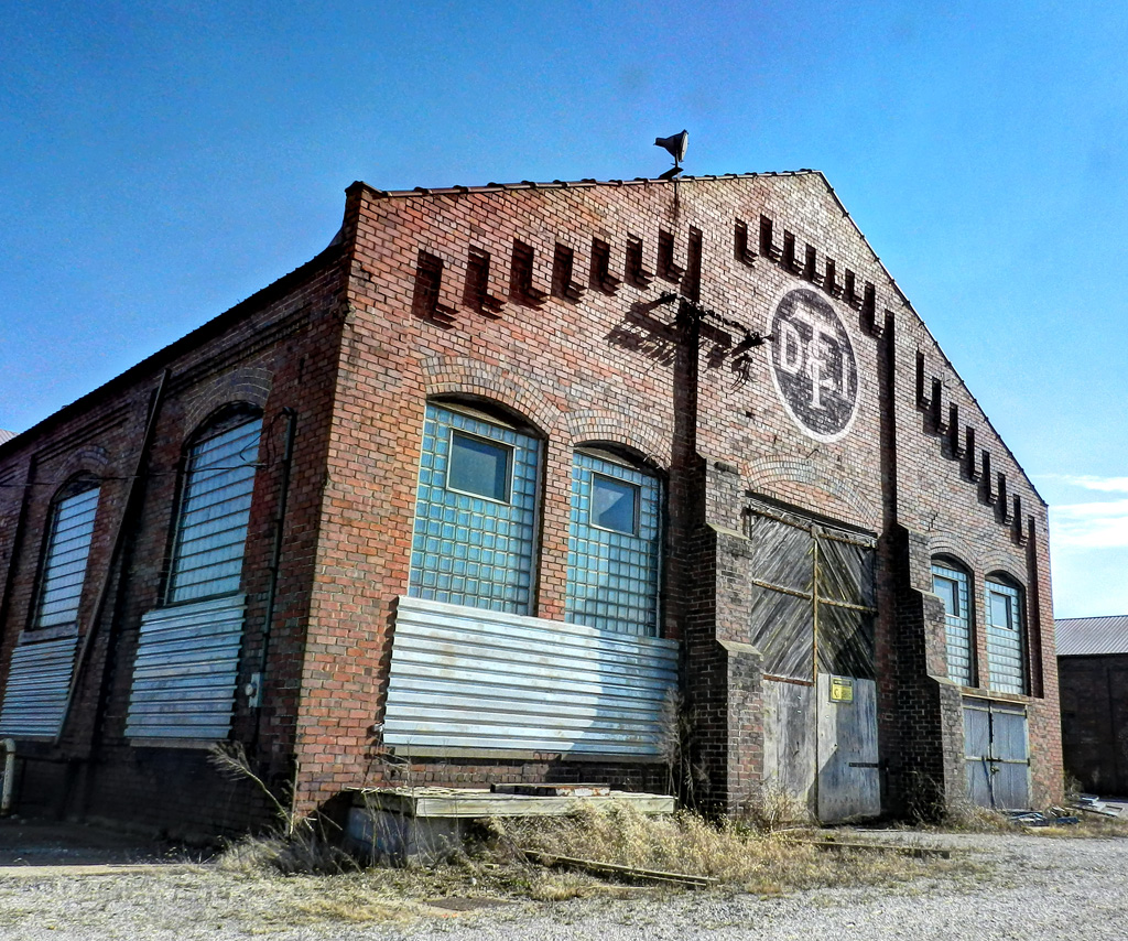 Built in the early 1900's this brick struucure was once part of the Detroit Toledo & Ironton Railroad shops.The DT&I was owned for years by Henry Ford. Here's a detailed history of the shops: I saw it on Athens Street in Jackson, Ohio. And I was impressed at the good condition of the bricks. (Photo note: I used the Photomatix fused-adjusted feature on three images one stop apart)